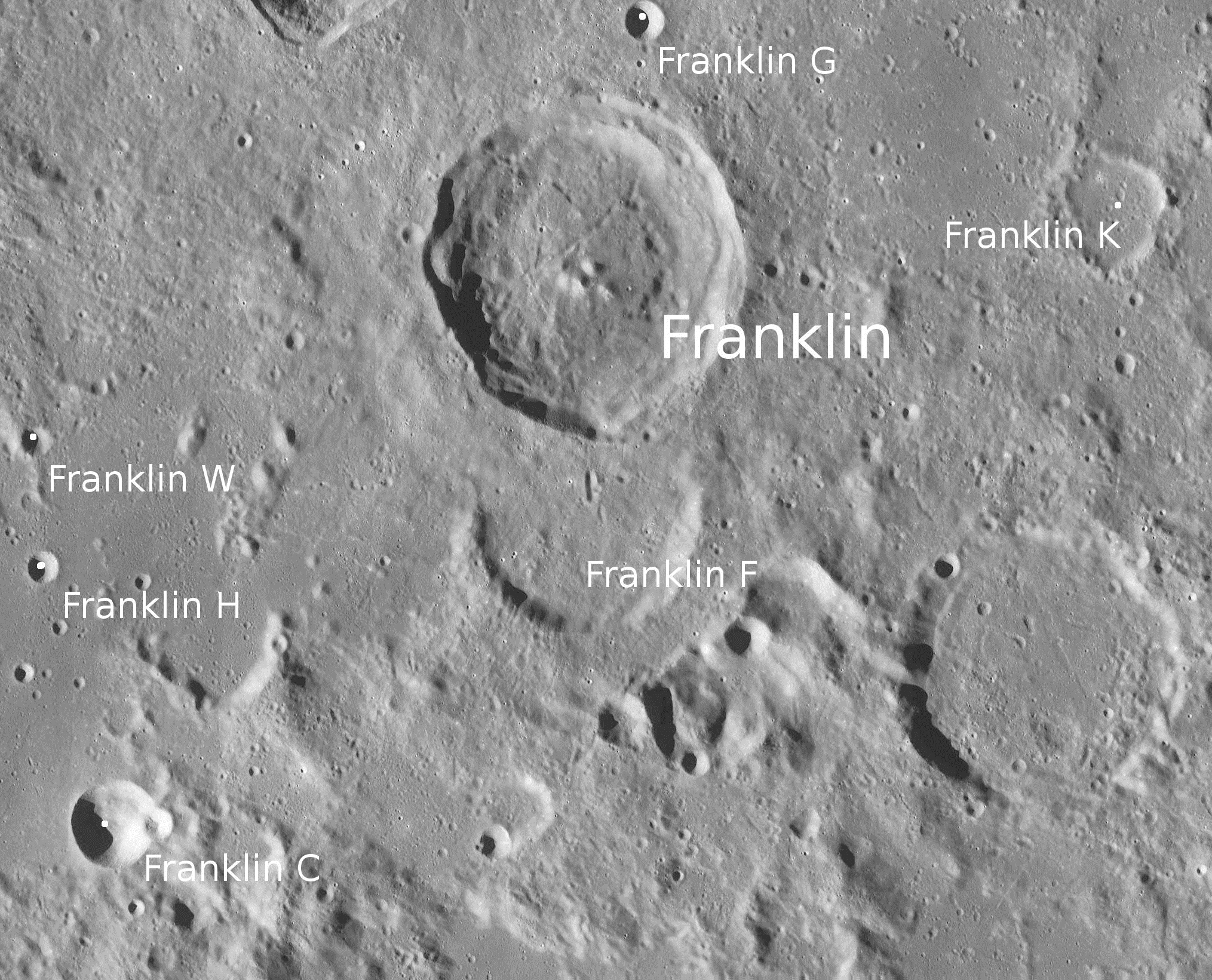 Derivative work from "Maury + Cepheus + Franklin + Berzelius - LROC - WAC.JPG" obtained cropping version dated 13.02.2012 18:32 and overimposing part of version dated 13.02.2012 18:12 to hide label Maury T.